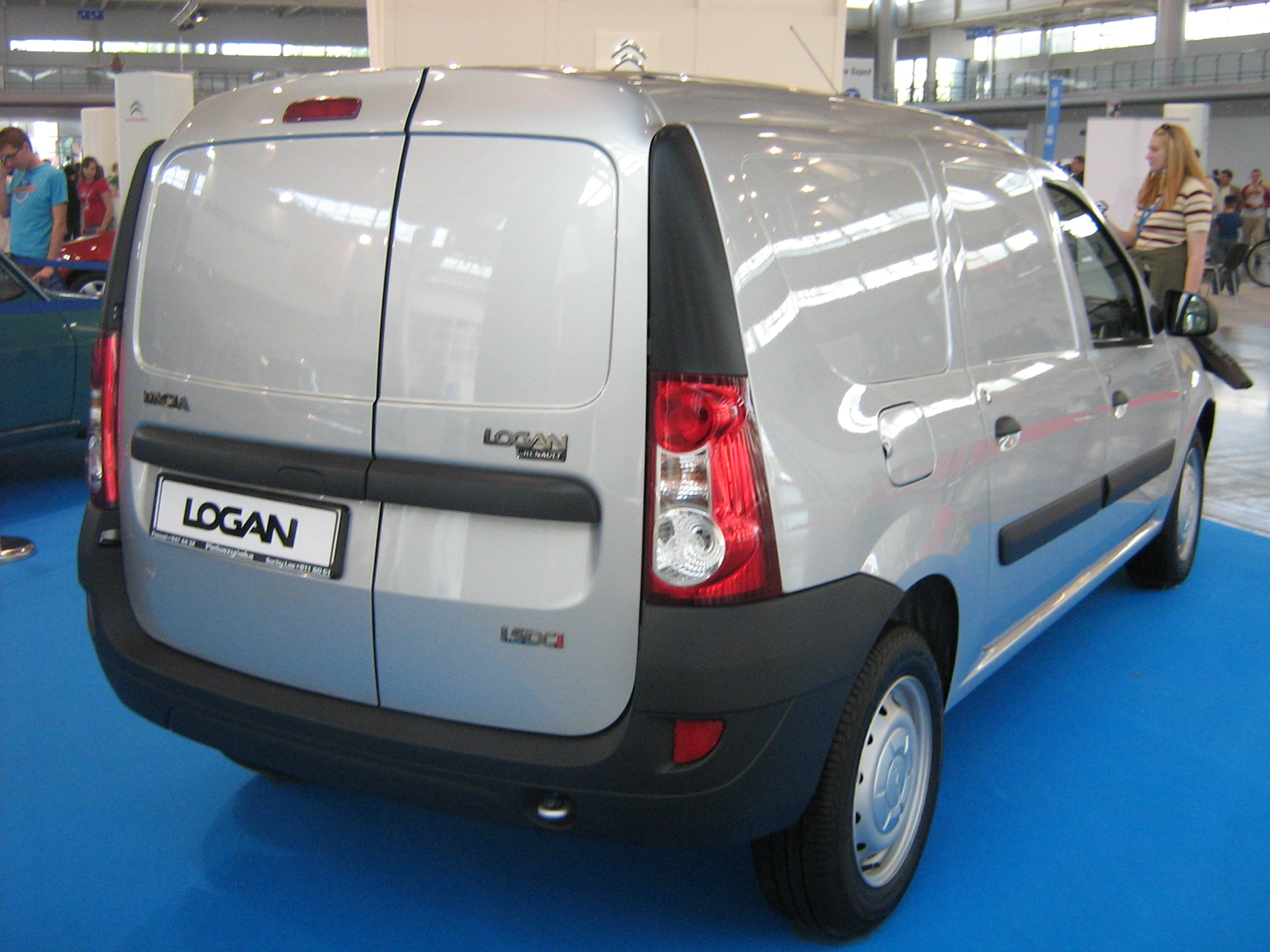 Dacia Logan Van - PSM 2009 in Poznan.